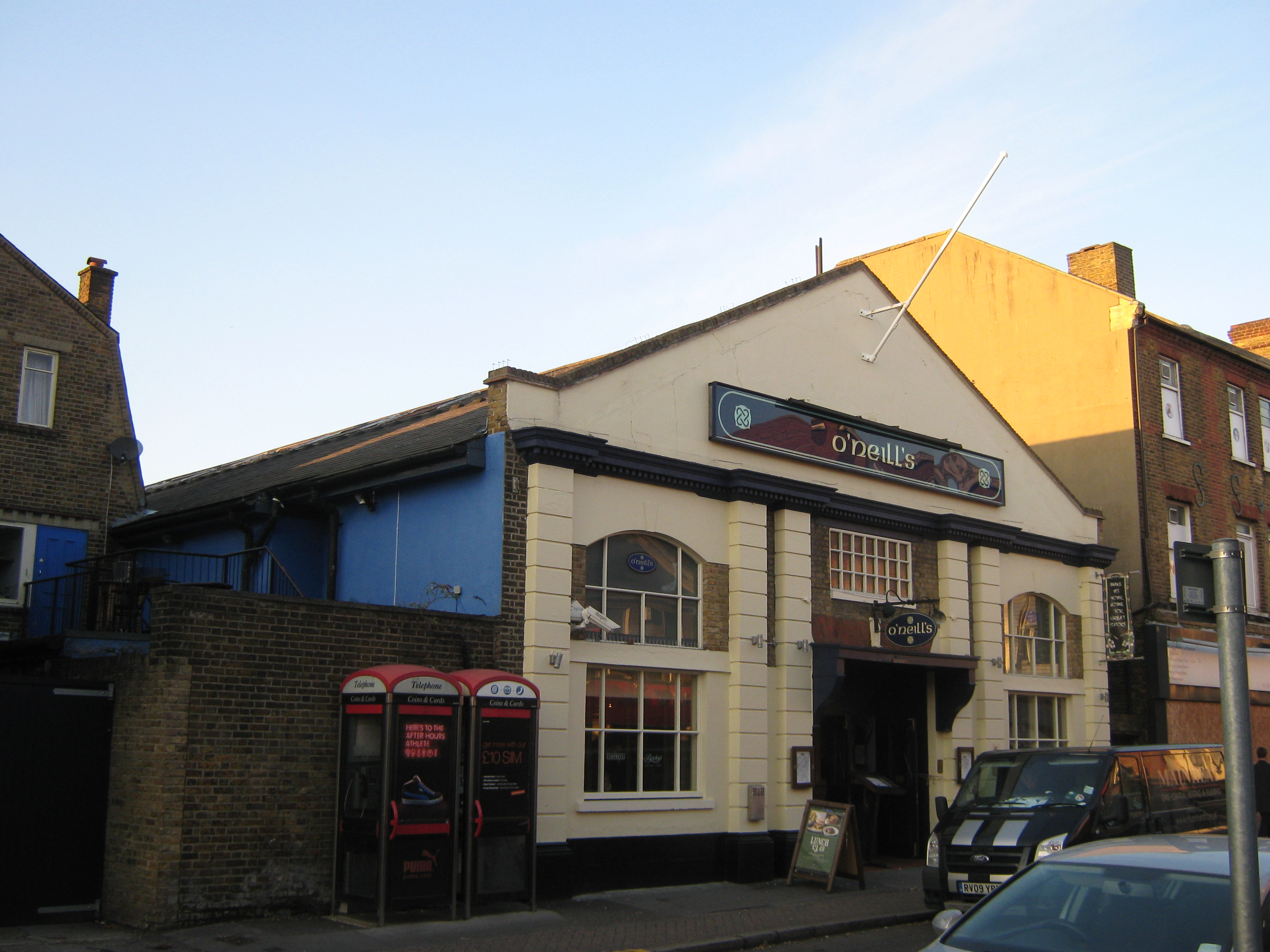 O'Neills Public House, Bromley